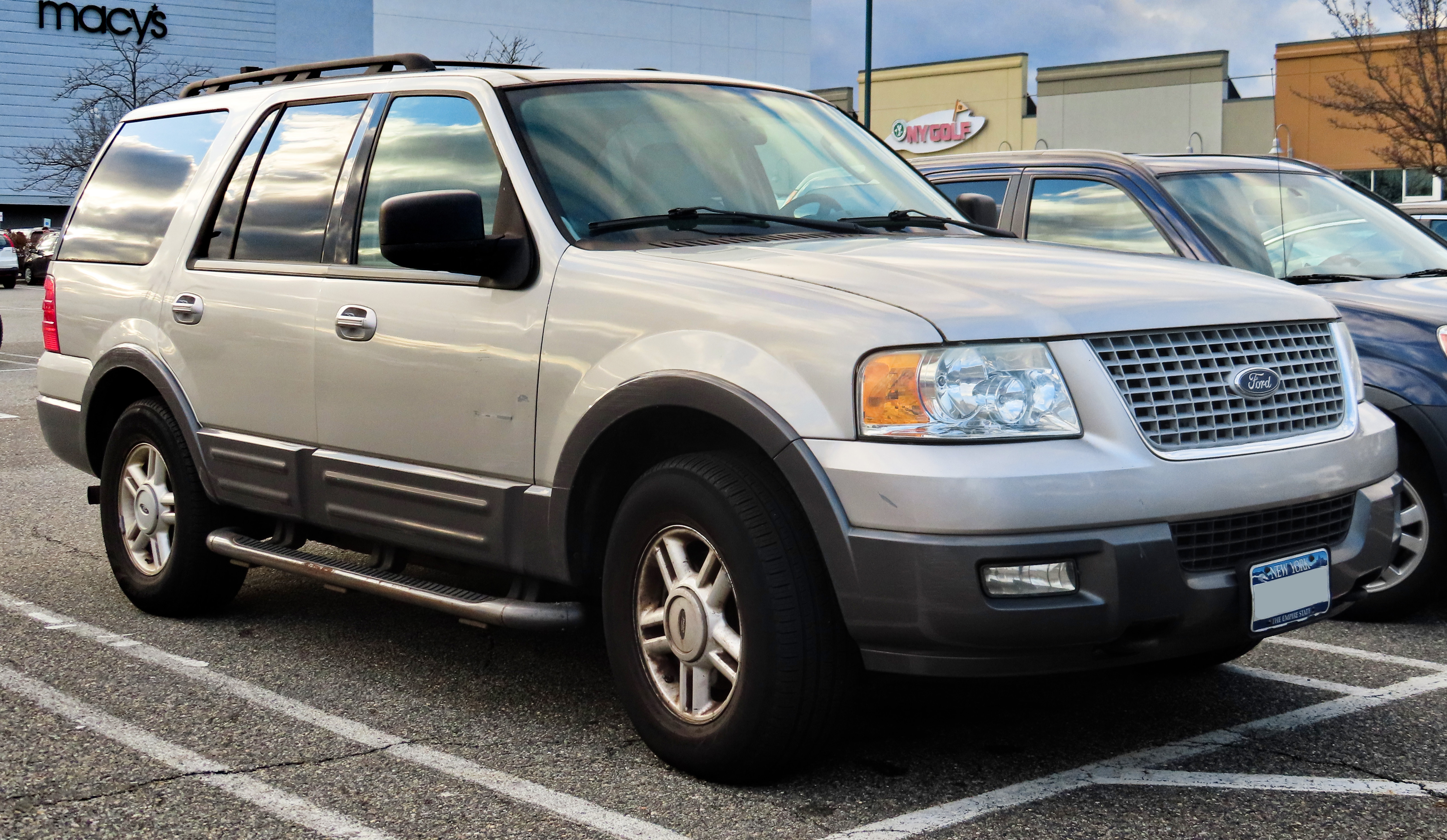 A 2005 Ford Expedition XLT photographed at Broadway Mall, in Hicksville, New York, USA